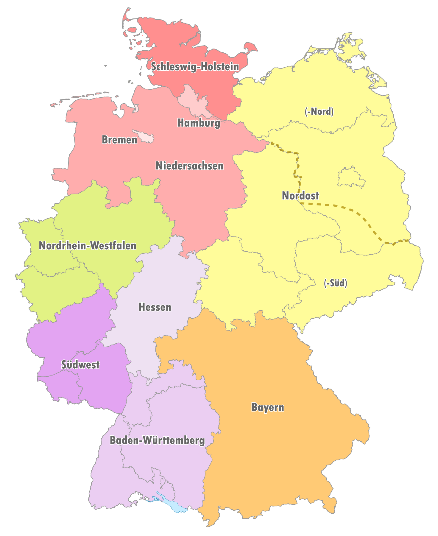 Map of German sub-regional soccer league, 2008-12